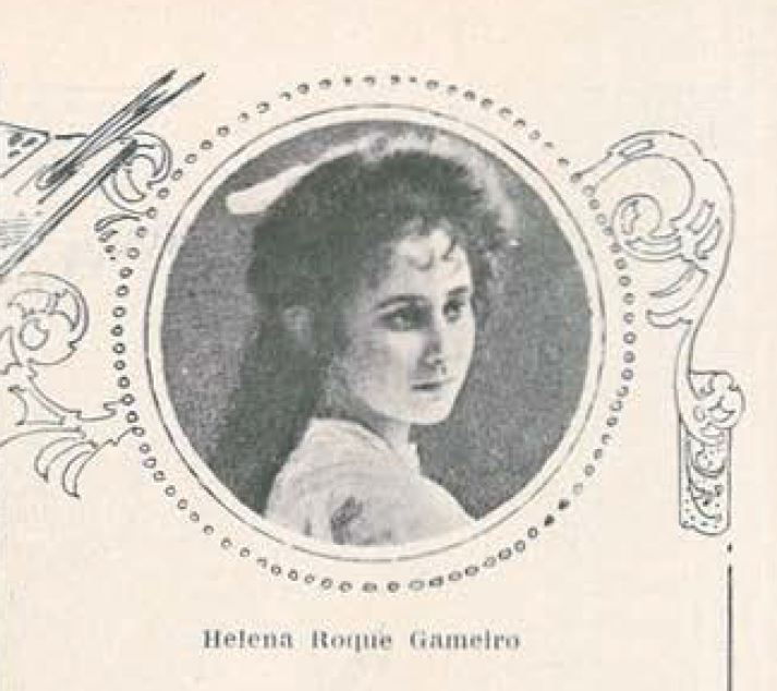 Cropped image of a reproduction of a portrait of artist Helena Roque Gameiro which appeared in Ilustração Portugueza , no. 413, 19 January 1914, p. 86.